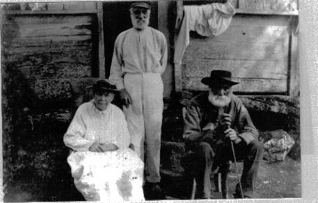 This is an image of Moses Young, Albina Young and Thursday October Christian, taken on Pitcairn Island in 1906